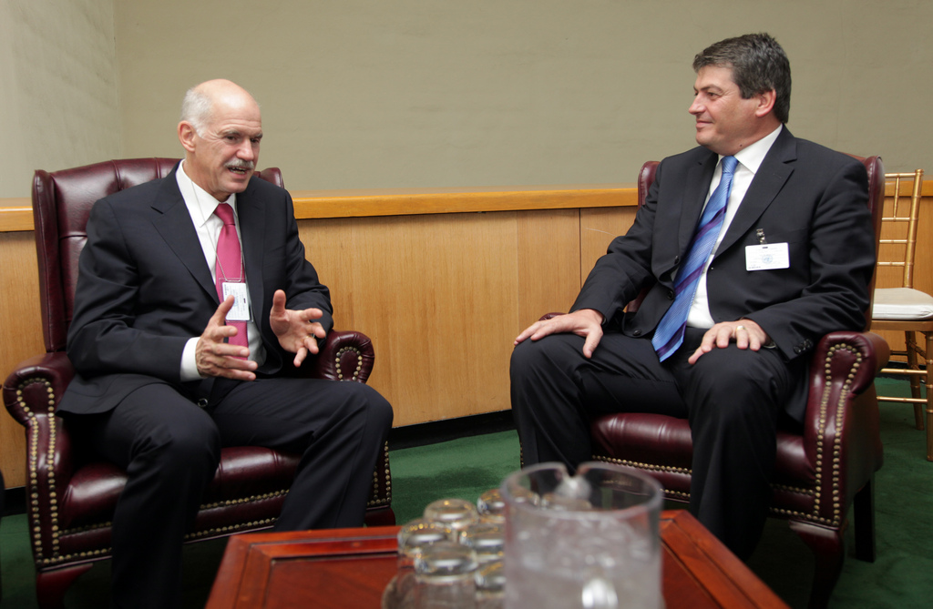 The greek prime minister and the albanian president in 2010.